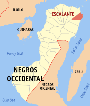 Map of Negros Occidental showing the location of Escalante